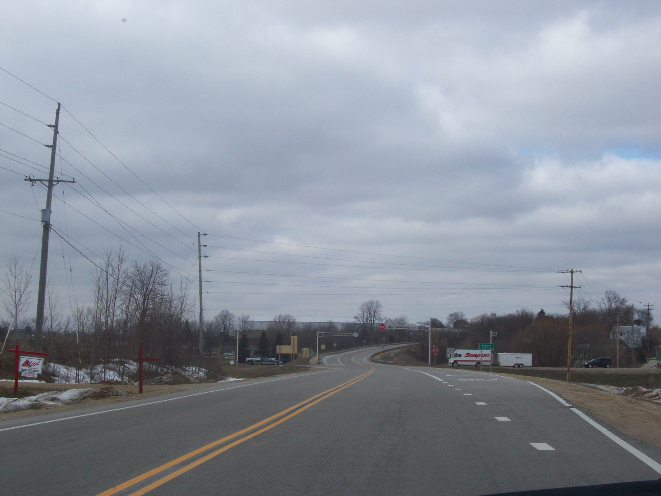 Looking north at Addison, Wisconsin, USA at the intersection of Wisconsin Highway 175 and Wisconsin Highway 33.